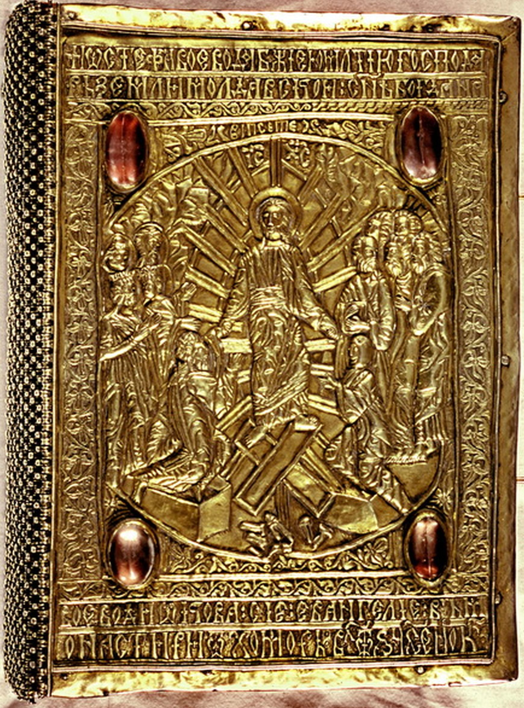 Religious Book (Tetraevangheli) from the Putna Monastery, Romania